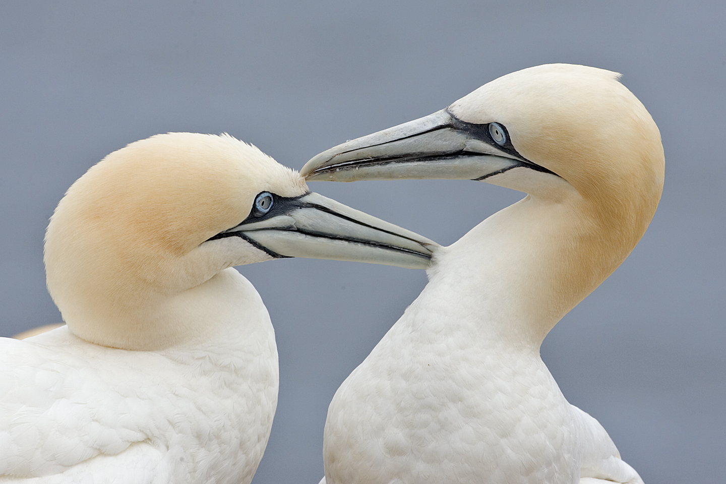 Northern Gannets (Morus bassanus), Bonaventure Island, Near Perce, Gaspe Penninsula, Quebec